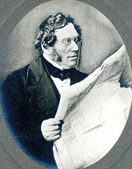 Early photograph of metallurgical chemist Hugh Lee Pattinson, FRS, (1796-1858) reading a newspaper.